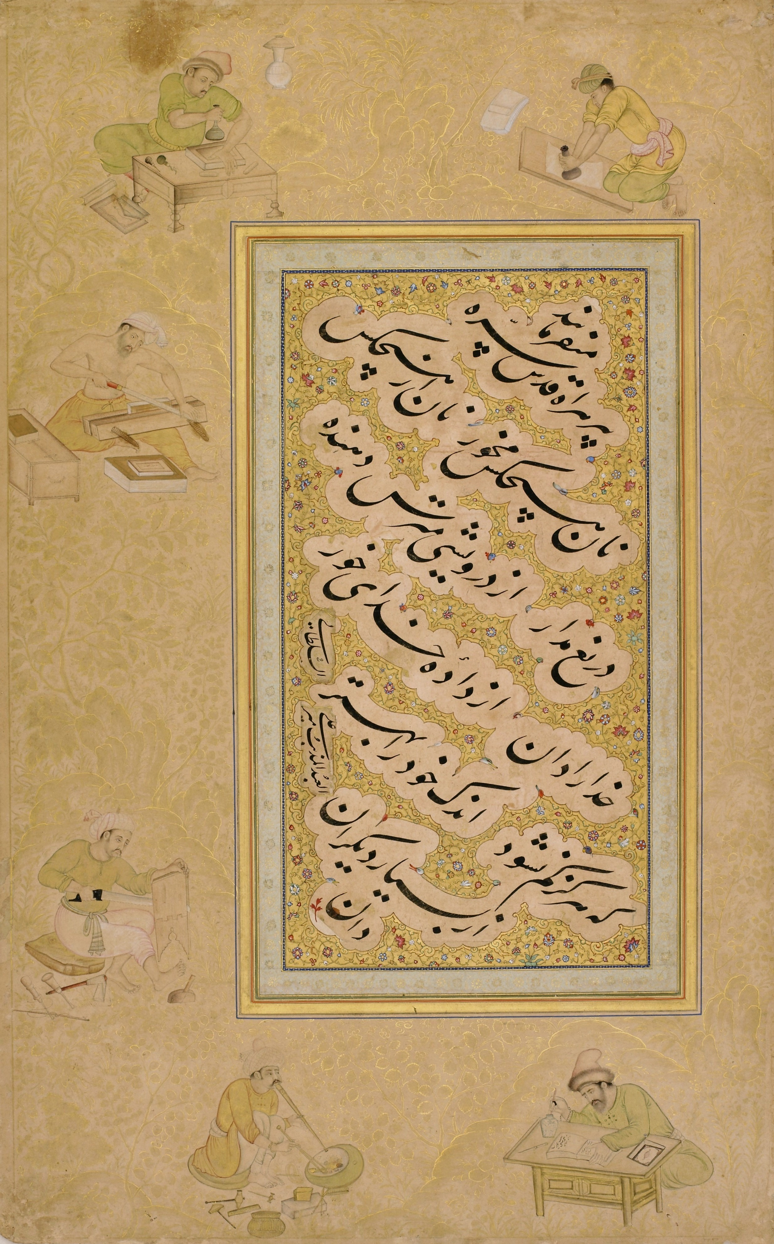 Page from Jahangir Album with calligraphy Mir Ali, ca. 1600, Freer Gallery of Art, Washington